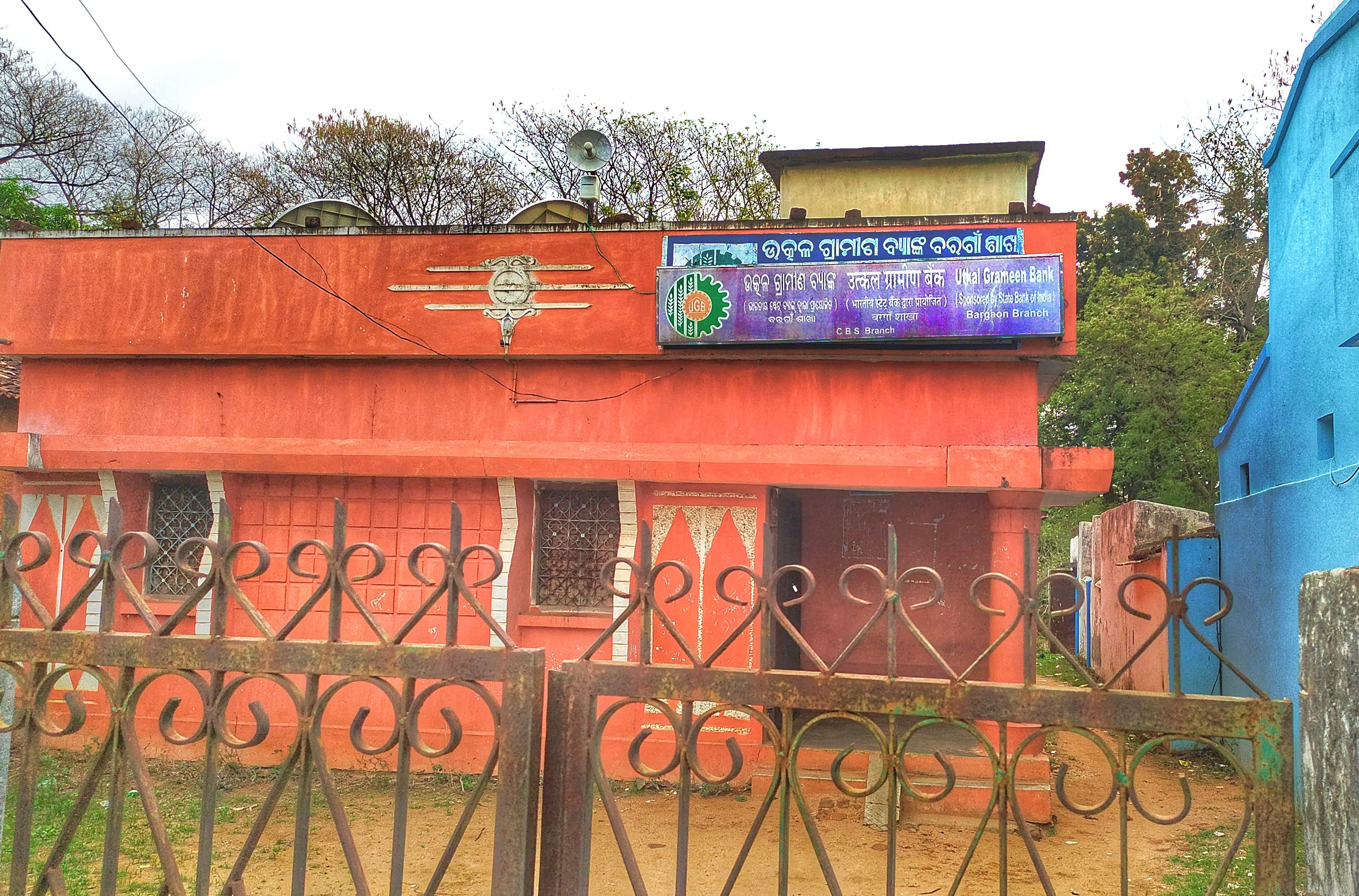 Utkal Grameen Bank - BARGAON 192